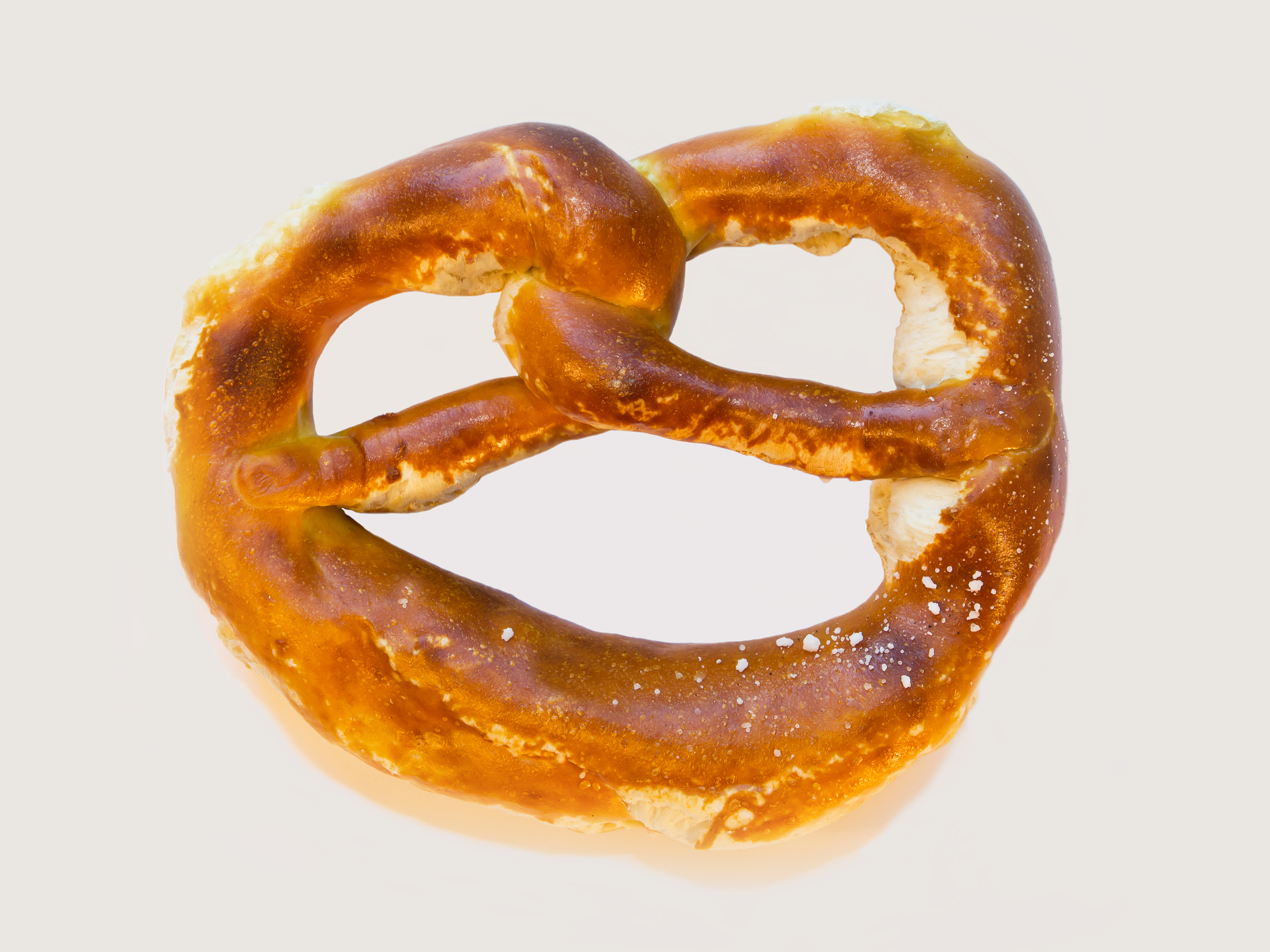 A pretzel from Germany